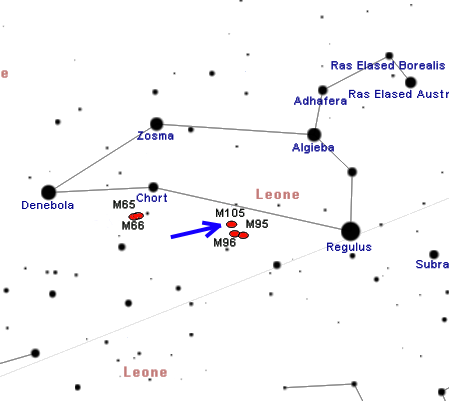 Map of M105